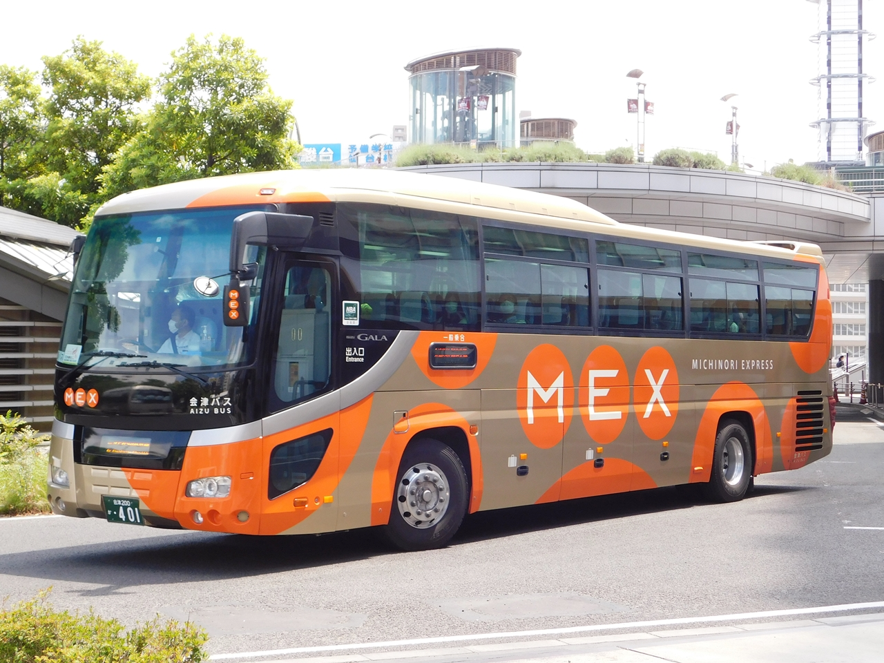 Aizu bus Isuzu Gala (PKG-RU1ESBJ),MEX(Michinori express color)on highwaybus AizuWakamatsu-Sendai Nikon Coolpix B500